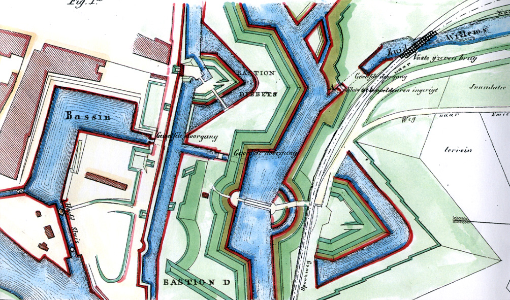 Maastricht, the Netherlands. Detail of a map of the northern section of the city before the dismantling of the fortification (ca 1867-1875) with Bassin (inner harbour), Boschpoort (city gate) and Zuidwillemsvaart (shipping canal).